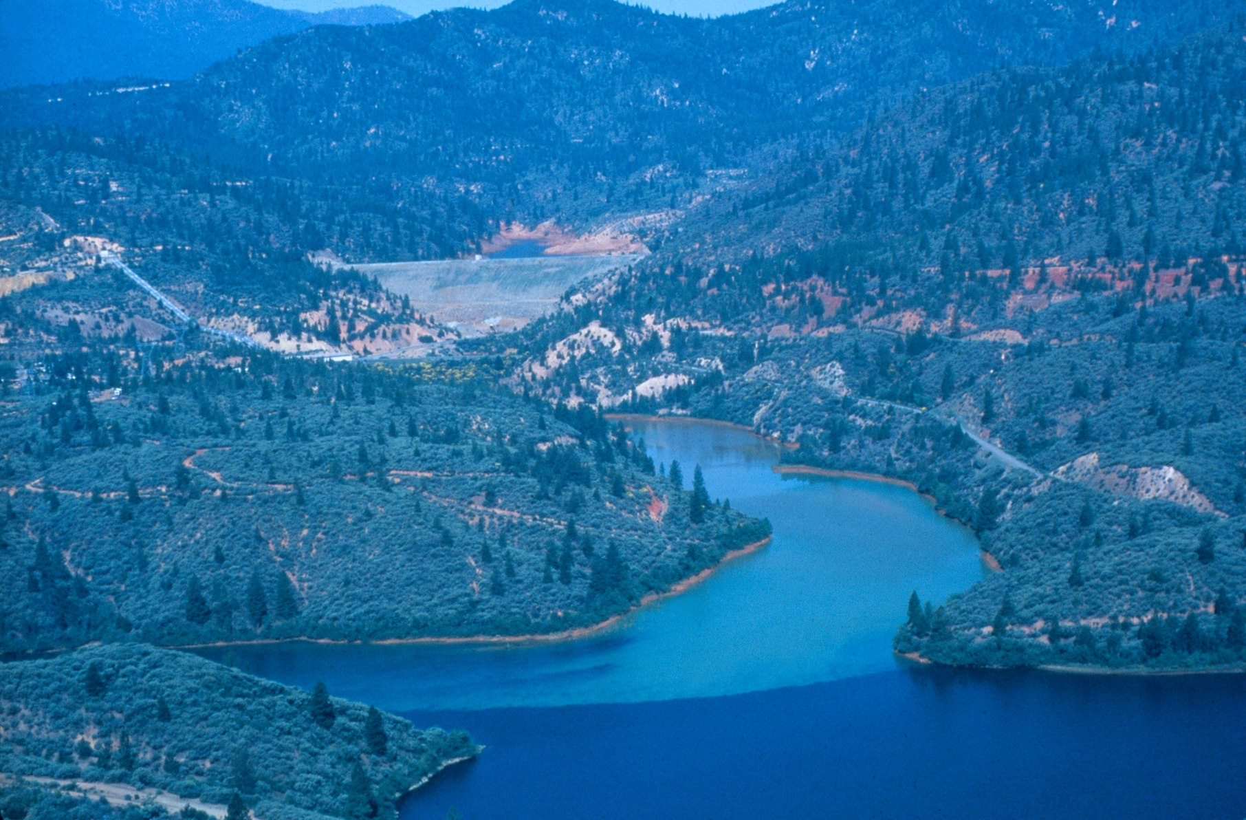 Aerial view of Spring Creek Dam, California, looking west.